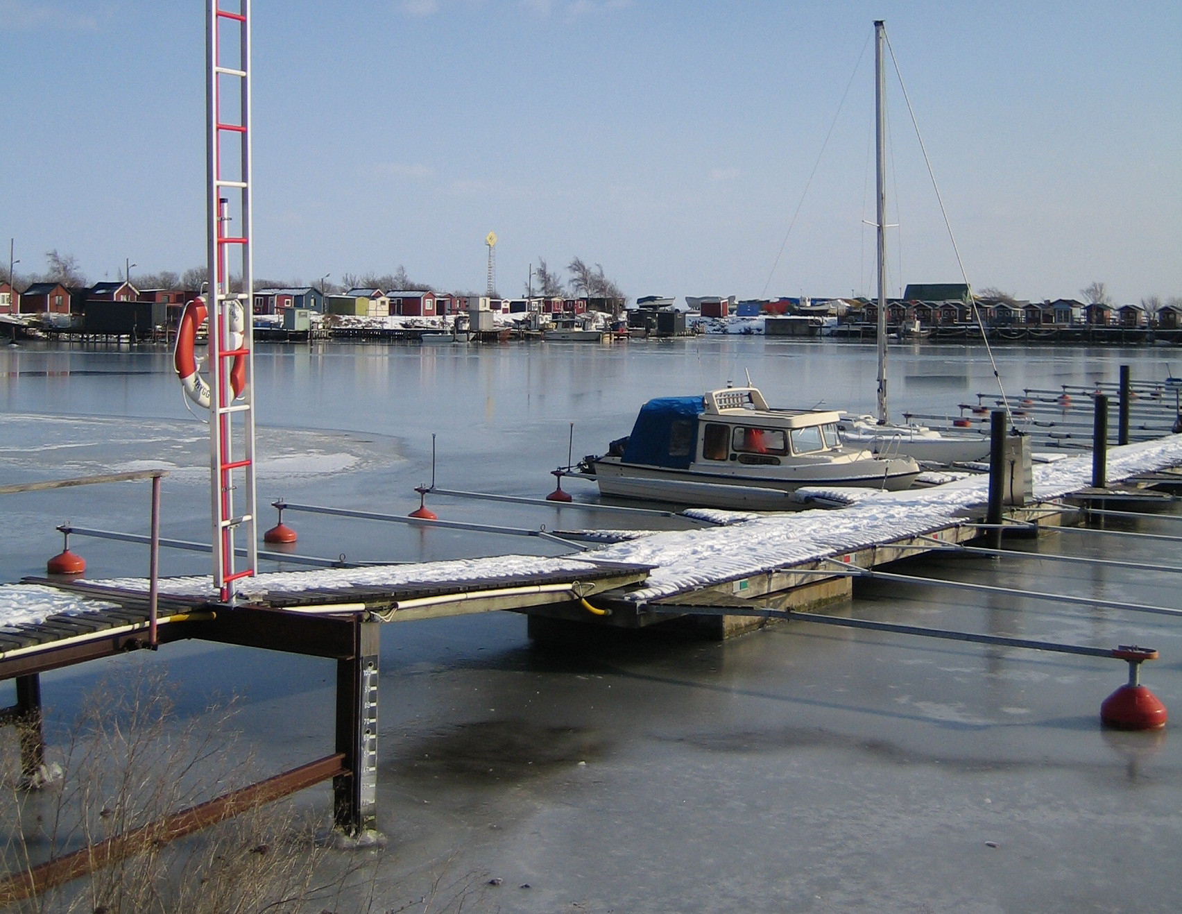 The small boat harbour of Klaghamn in winter.